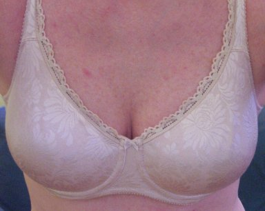 Using a gel bra to create cleavage, step three, with breast forms and bra but no makeup.